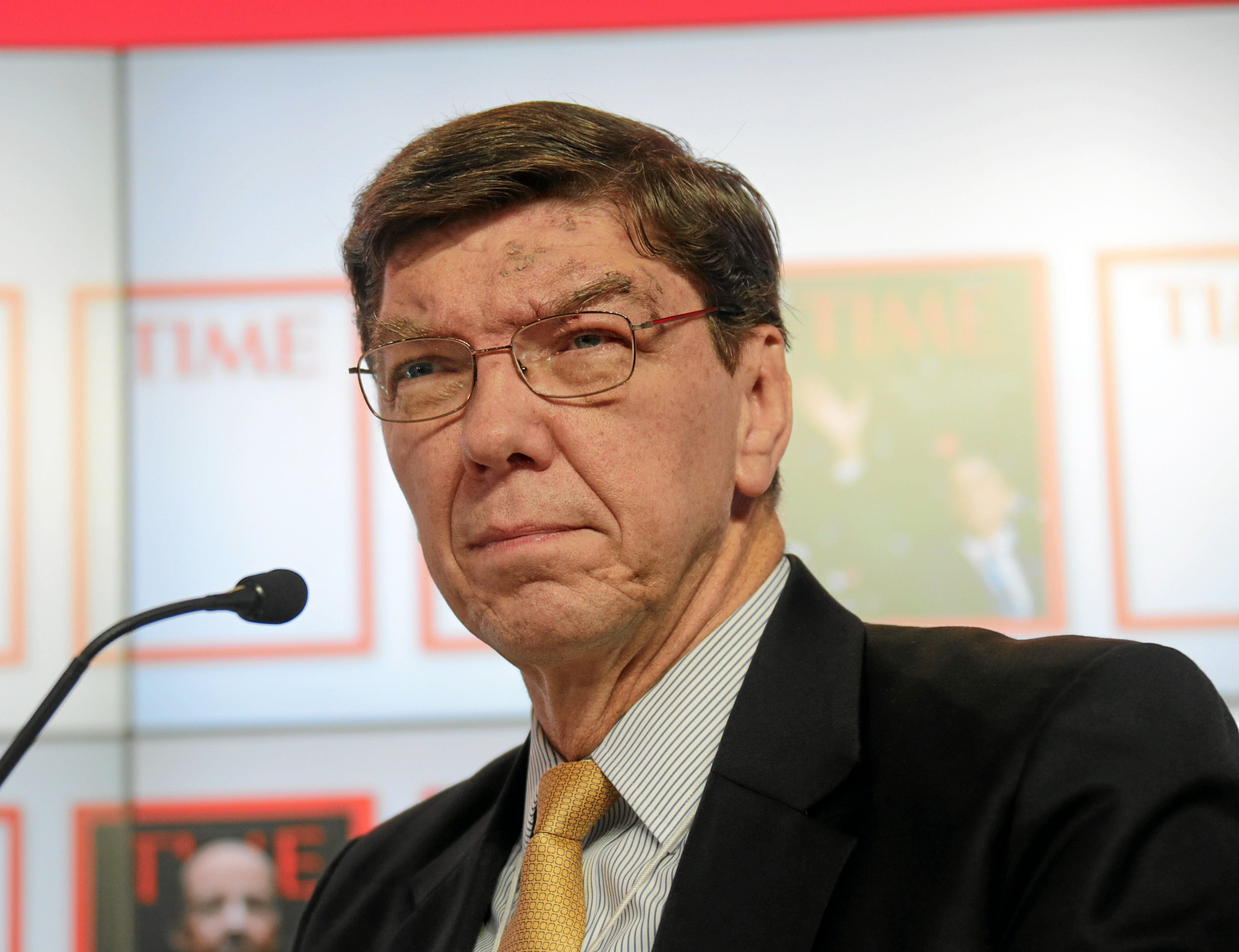 DAVOS/SWITZERLAND, 23JAN13 - Clayton Christensen, Professor of Business Administration, Harvard Graduate School of Business Administration, USA concentrates during the televised session 'Leading through Adversity - Improving Decision-Making' at the Annual Meeting 2013 of the World Economic Forum in Davos, Switzerland, January 23, 2013.. . Copyright by World Economic Forum. . Remy Steinegger